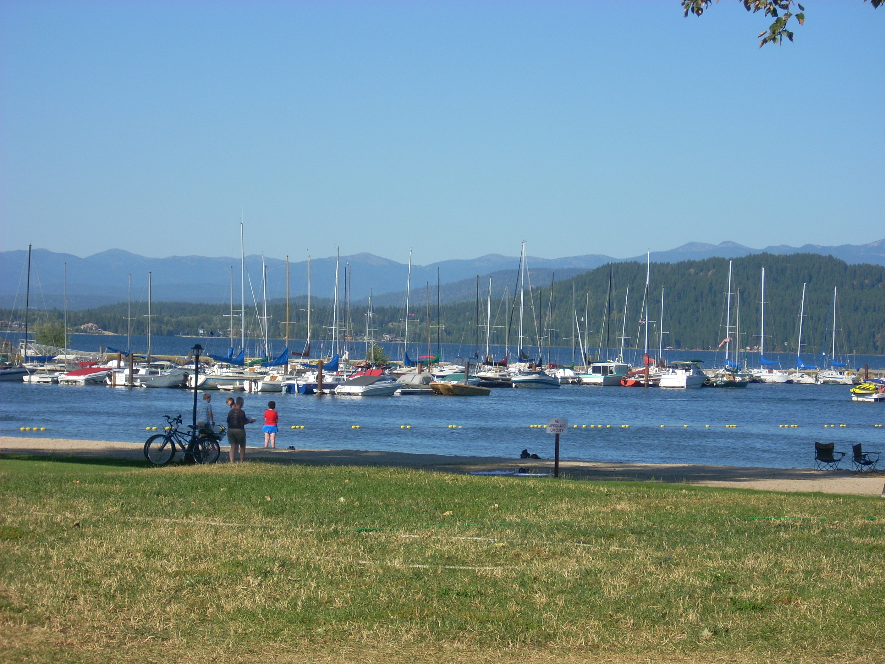 Windbag Marina. One of many marinas in Sandpoint, Windbag is located adjacent to City Beach, and offers boat moorage and rentals. Sandpoint, Idaho., Sandpoint.